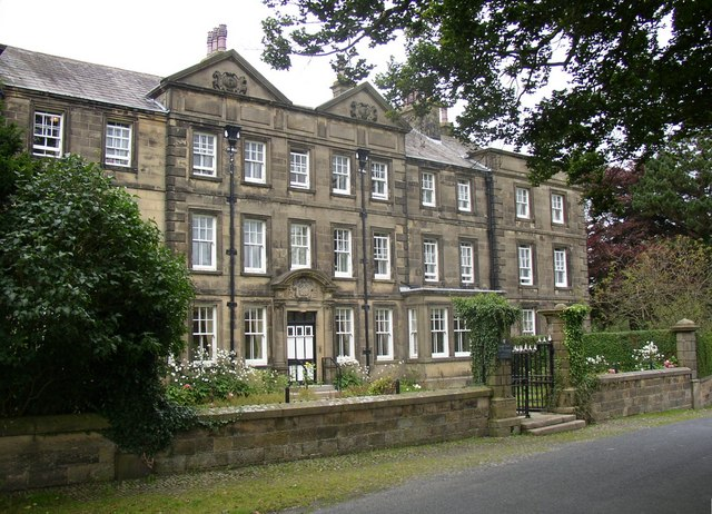 The Bushell Hospital, Goosnargh This is similar to the photograph in SD5636, but as the grid line goes approximately through the front door the building deserves to be in this square too. The Hospital was founded by William Bushell's will, 1735. He devised almost all his estate to trustees for maintaining 'decayed gentlemen or gentlewomen or persons of the better rank of both or either sex, inhabitants of local townships, and Protestants, in a house or hospital to be provided in Goosnargh, at or near the dwelling-house of his late father.' The trust became effective ten years later when his daughter Elizabeth died. In 1824 there were thirteen persons in the hospital; each had a separate room, but they dined together. The rainwater hoppers are dated 1722, so it would seem possible that the building is the house of his father, which would explain why it looks more like a mansion than almshouses. The house was later enlarged, and the number of residents increased to 24.